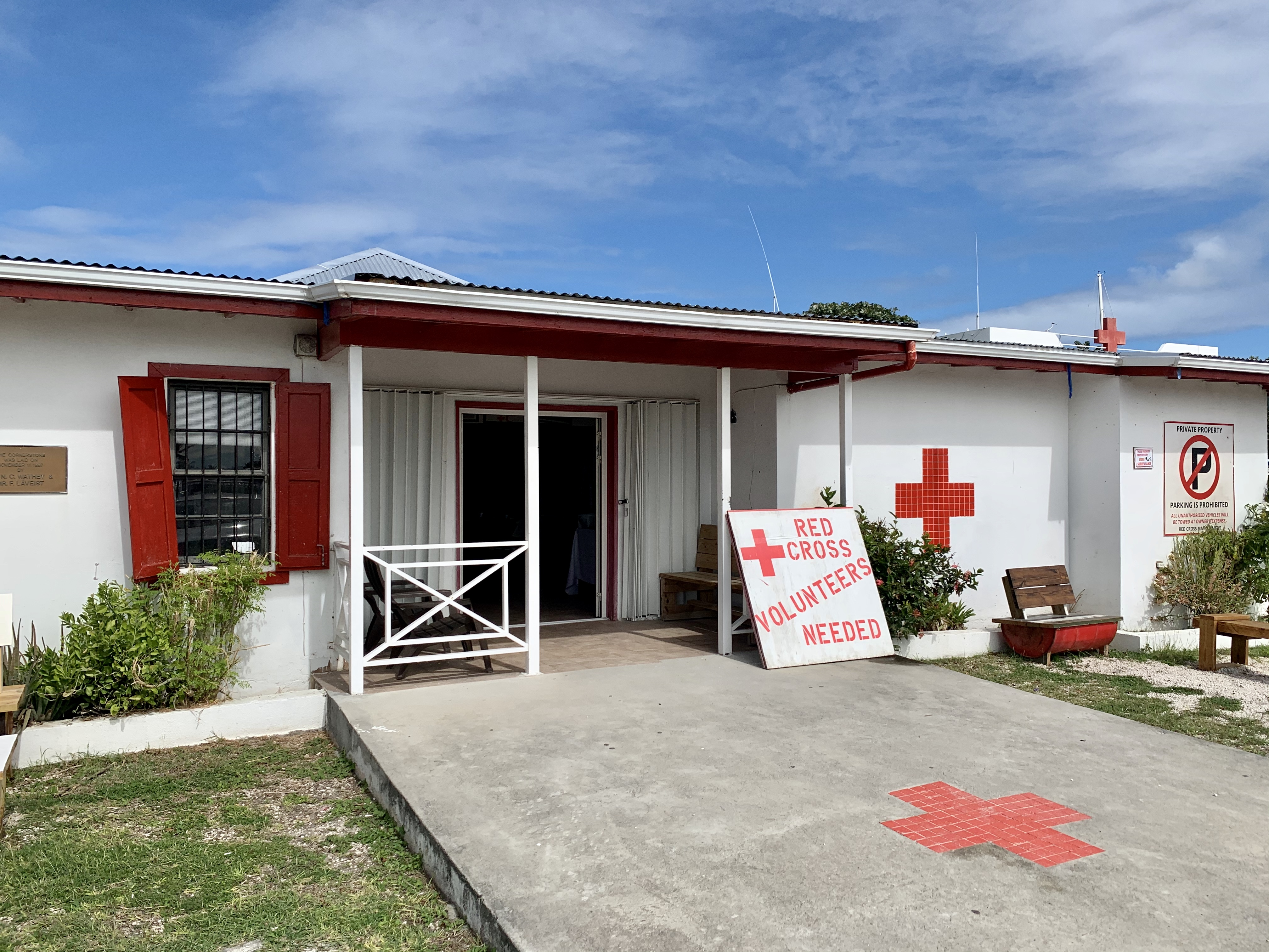 Photo of the main office of Red Cross St Maarten located on Airport Road, Simpson Bay, Sint Maarten.